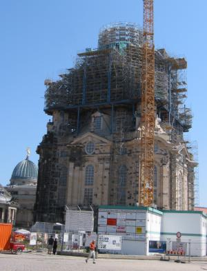 Frauenkirche Dresden (August 2003). Photographed by Webster on 10 August 2003.